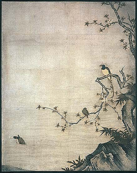 Kanō Motonobu: Flowers and Birds of the four seasons, 1513, 139x170 cm. Daisen-in, Daitoku-ji, Kyoto.